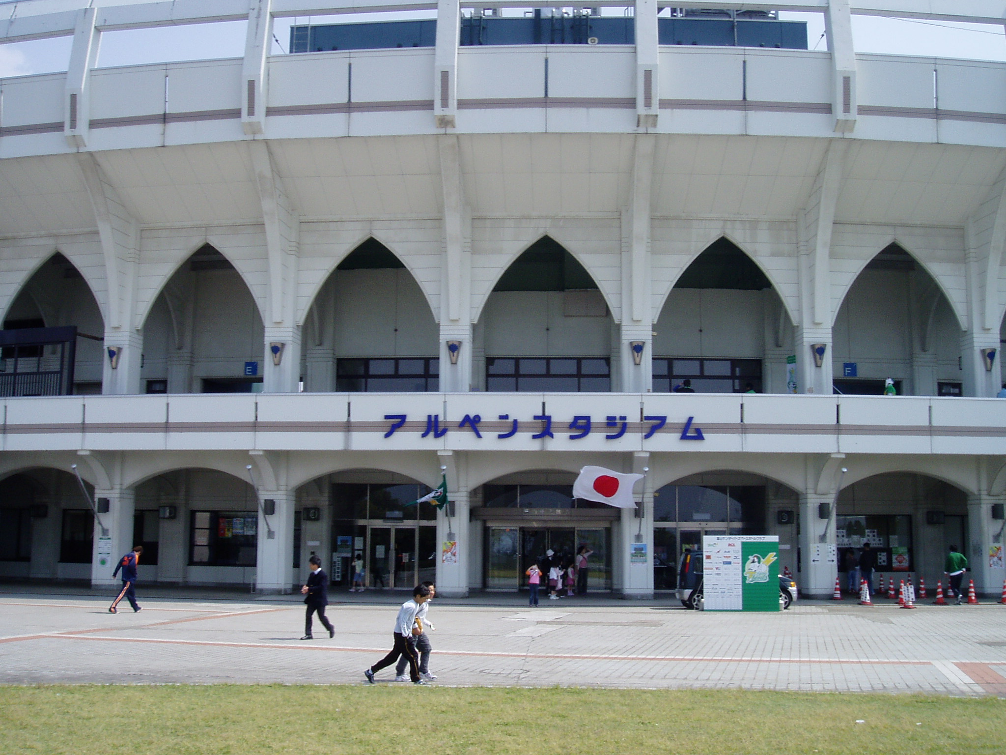 Toyama Alpen Stadium Entrace